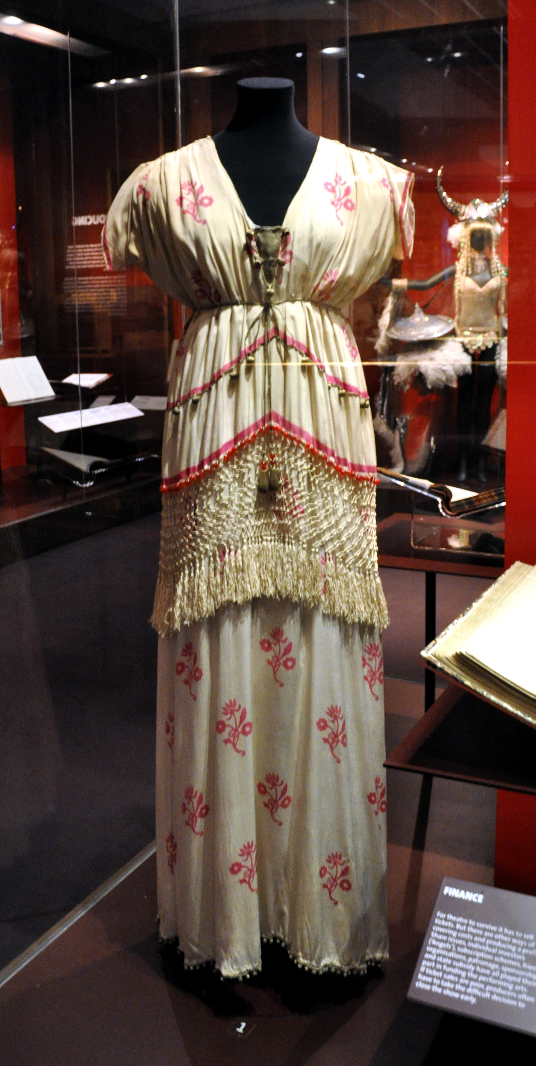 Costume for Helena in A Midsummer Night's Dream. Crêpe-de-chine, fringe and beads. Made by Norman Wilkinson (1882–1934) for Harley Granville Barker's production of A Midsummer Night's Dream (1914) at the Savoy Theatre. Victoria and Albert Museum, London, Museum number: S.1355&A-1984; Link